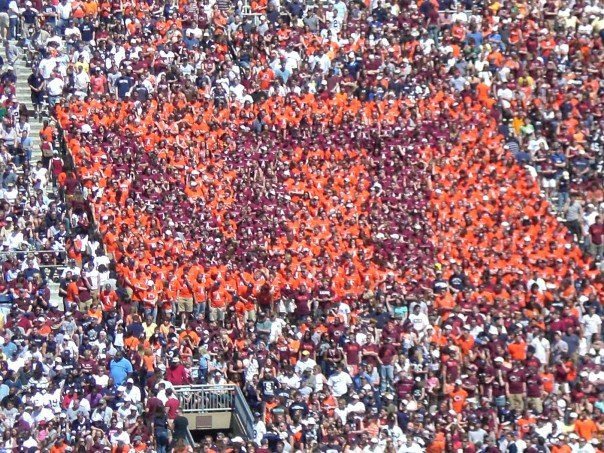 At Penn State's spring game, students donned orange and maroon t-shirts to form a giant VT in remembrance of those who had died in the Virginia Tech massacre